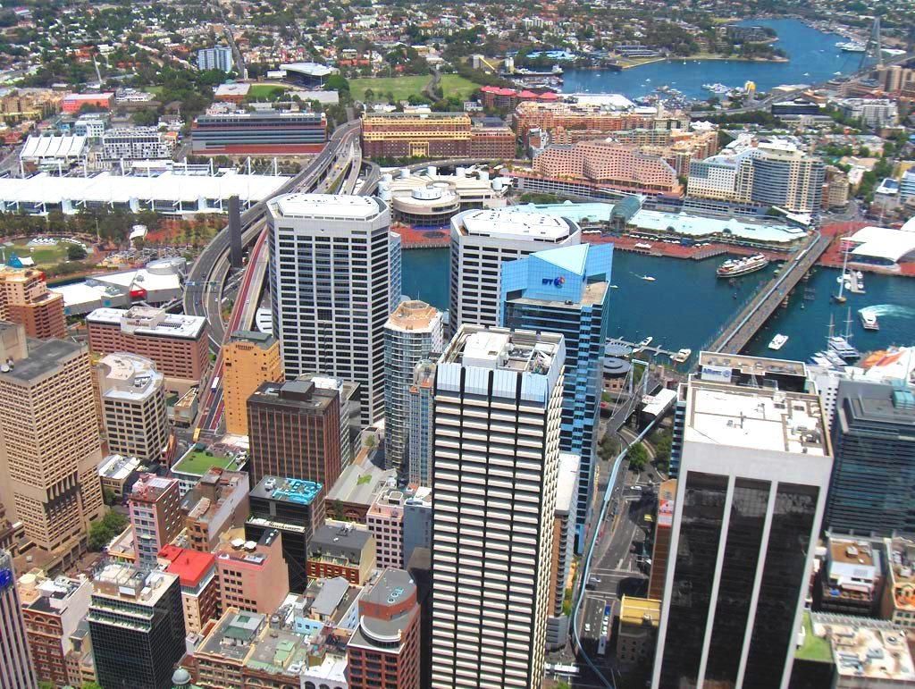 John Shillabeer, 19/11/2006